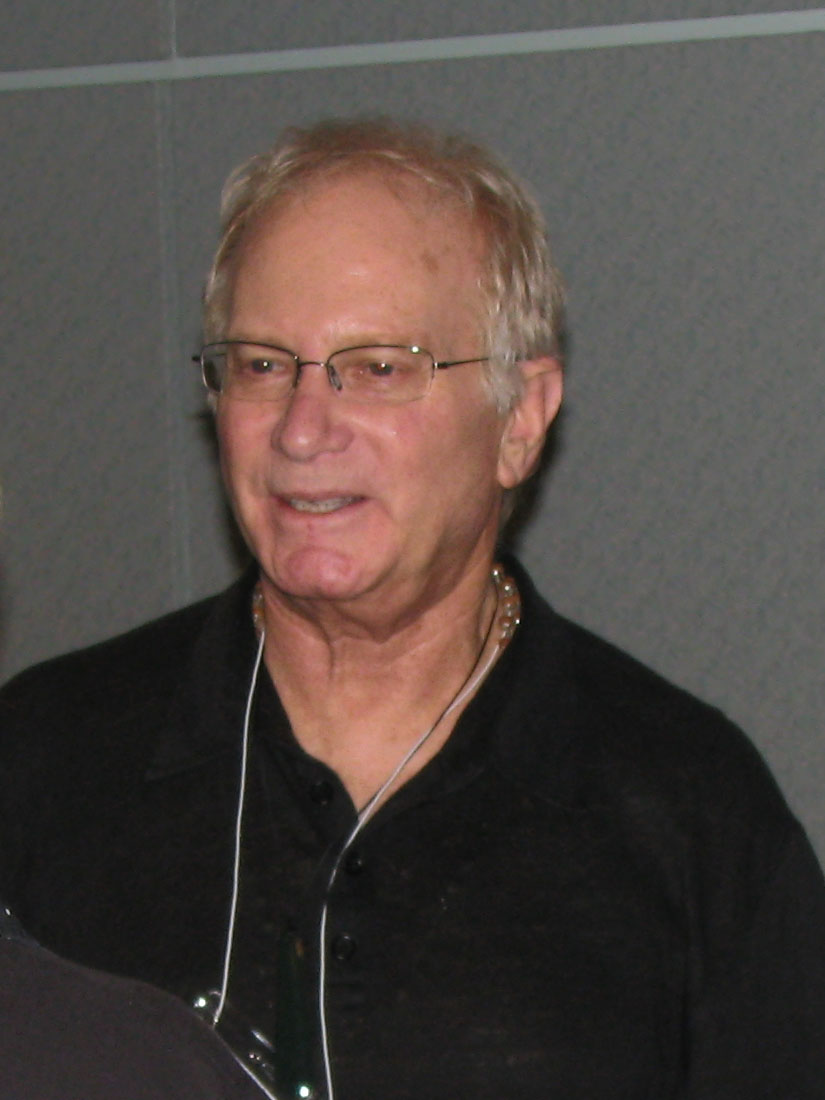 Screenwriting guru Syd Field His seminar cost an additional fee and included movie clips.